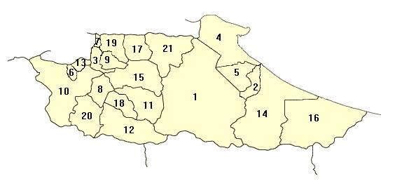 Map of the Venezuelan state of Miranda Mapa hecho por mi, prueba.